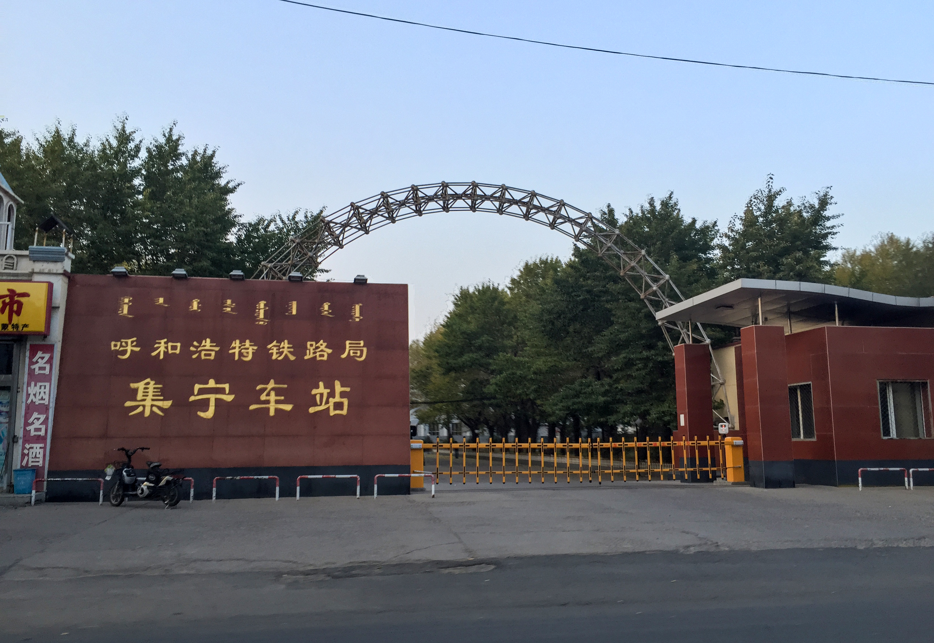 No passenger services here.